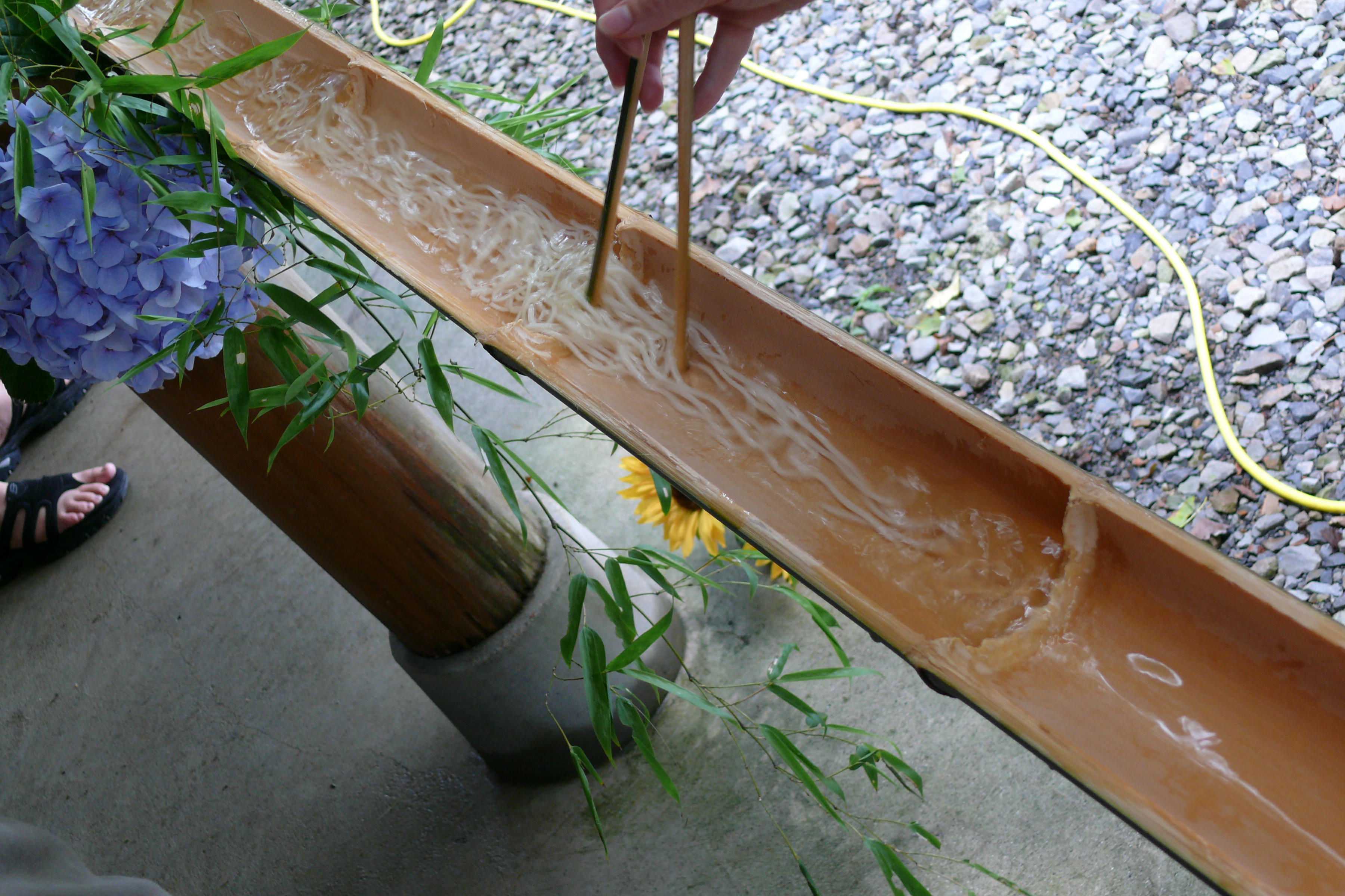 The short explanation is that this was awesome.The long explantion is that this is Nagashi Somen.I guess both are kinda short.We made our bowls and chopsticks out of bamboo as well.I like my Noodles like I like my women, swimming down a bamboo ramp in a stream of water where I have to grab them with chopsticks